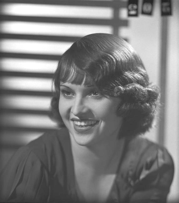 Studio photo